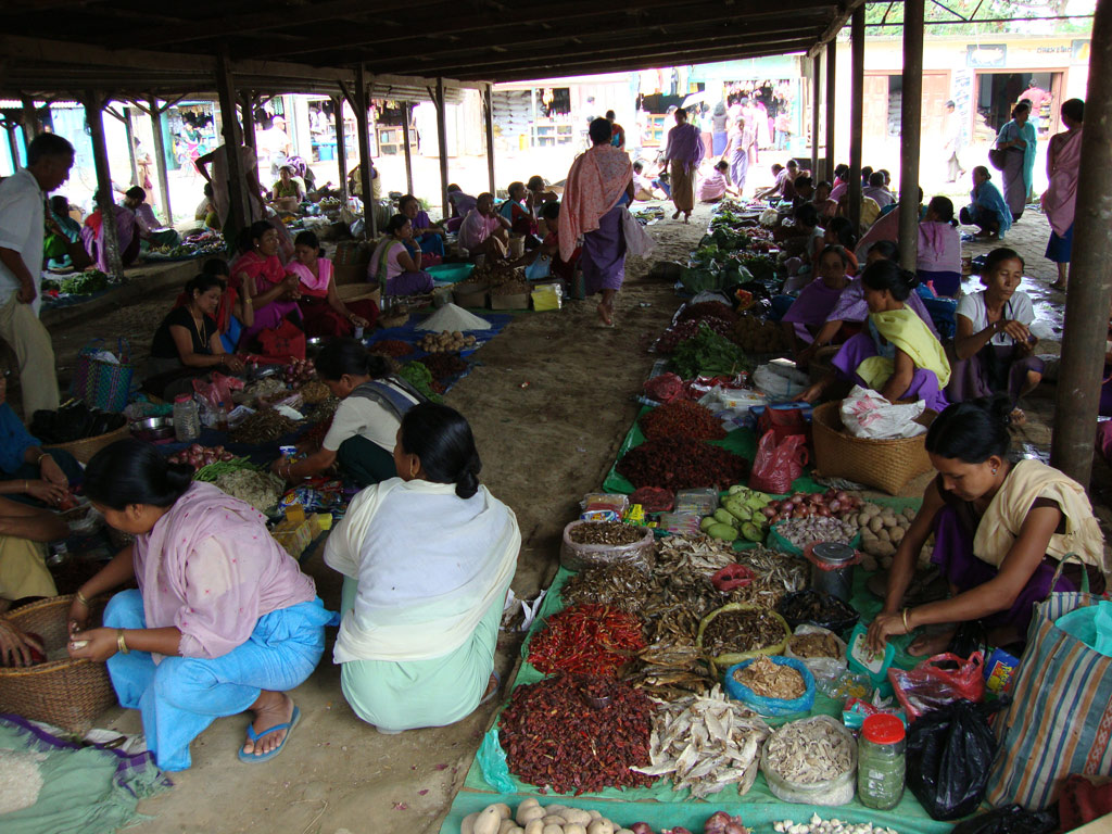 The Kakching Khunou Market. It's small but beautiful.